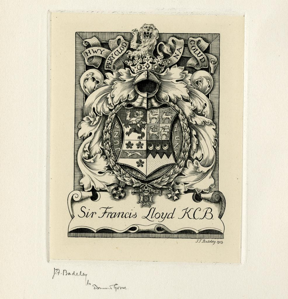 Armorial/Heraldic Bookplates. Subject: Coat of arms; Shields; Armor; Crowns. Subject - Personal Name: Lloyd, Francis.